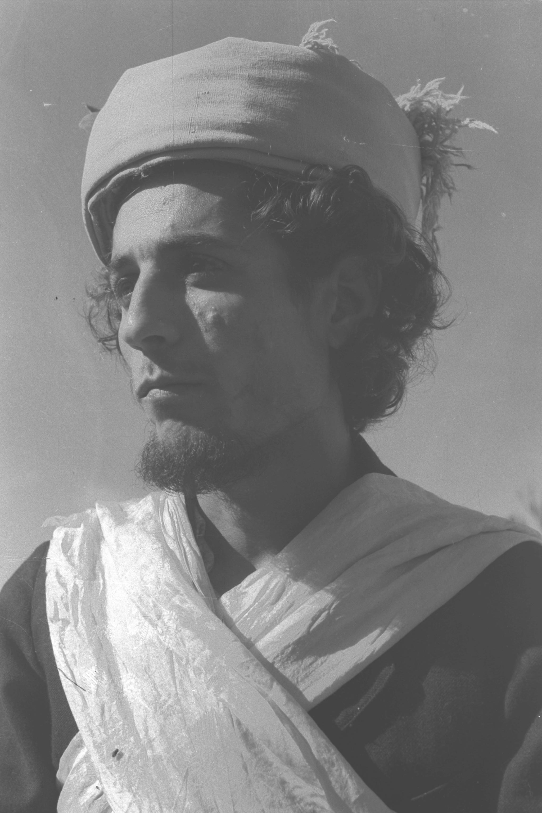 A PORTRAIT OF A YEMENITE HABANI MAN. פורטרט של עולה חדש, תימני חבני.